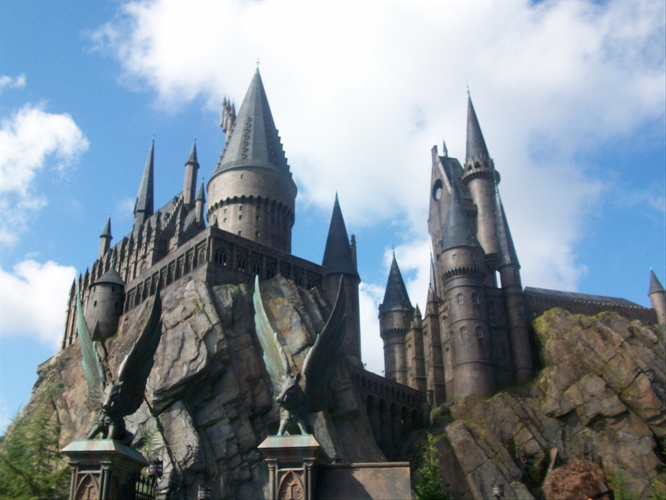 Taken June 13th outside the attraction "Harry Potter and the Forbidden Journey"